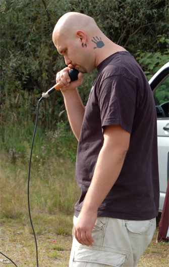 Steen1 a.k.a. Seppo Lampela performing on demonstration in Helsinki, Finland